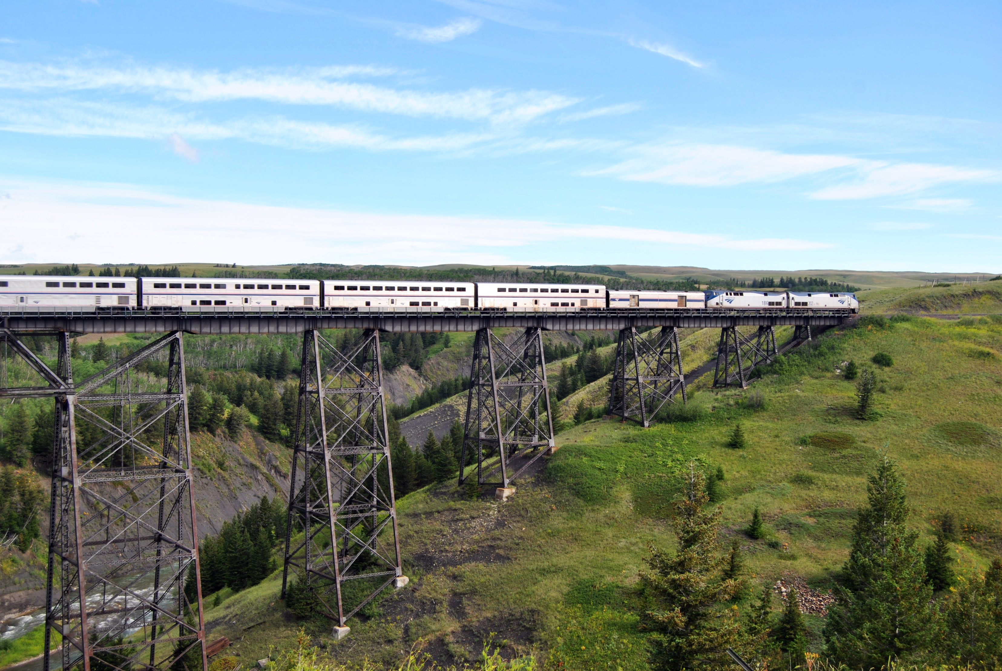 Eastbound Empire Builder crossing Two Medicine Trestle @ East Glacier MT